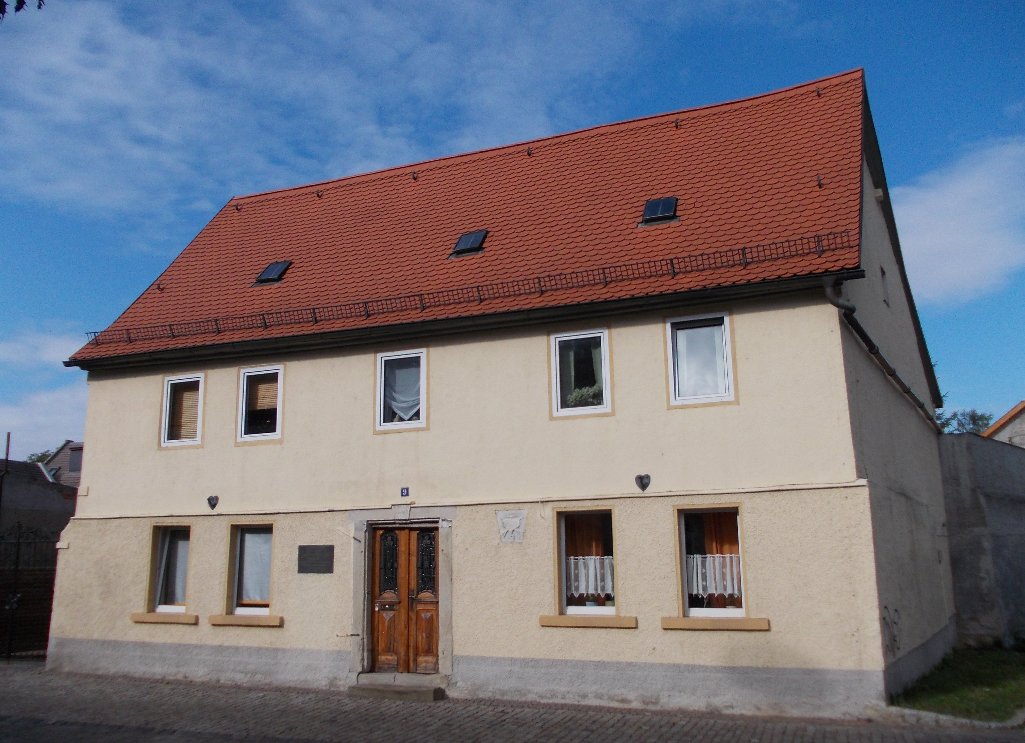 House no. 9 at the market square in Teuchern (district of Burgenlandkreis, Saxony-Anhalt), birthplace of the composer Reinhard Keiser